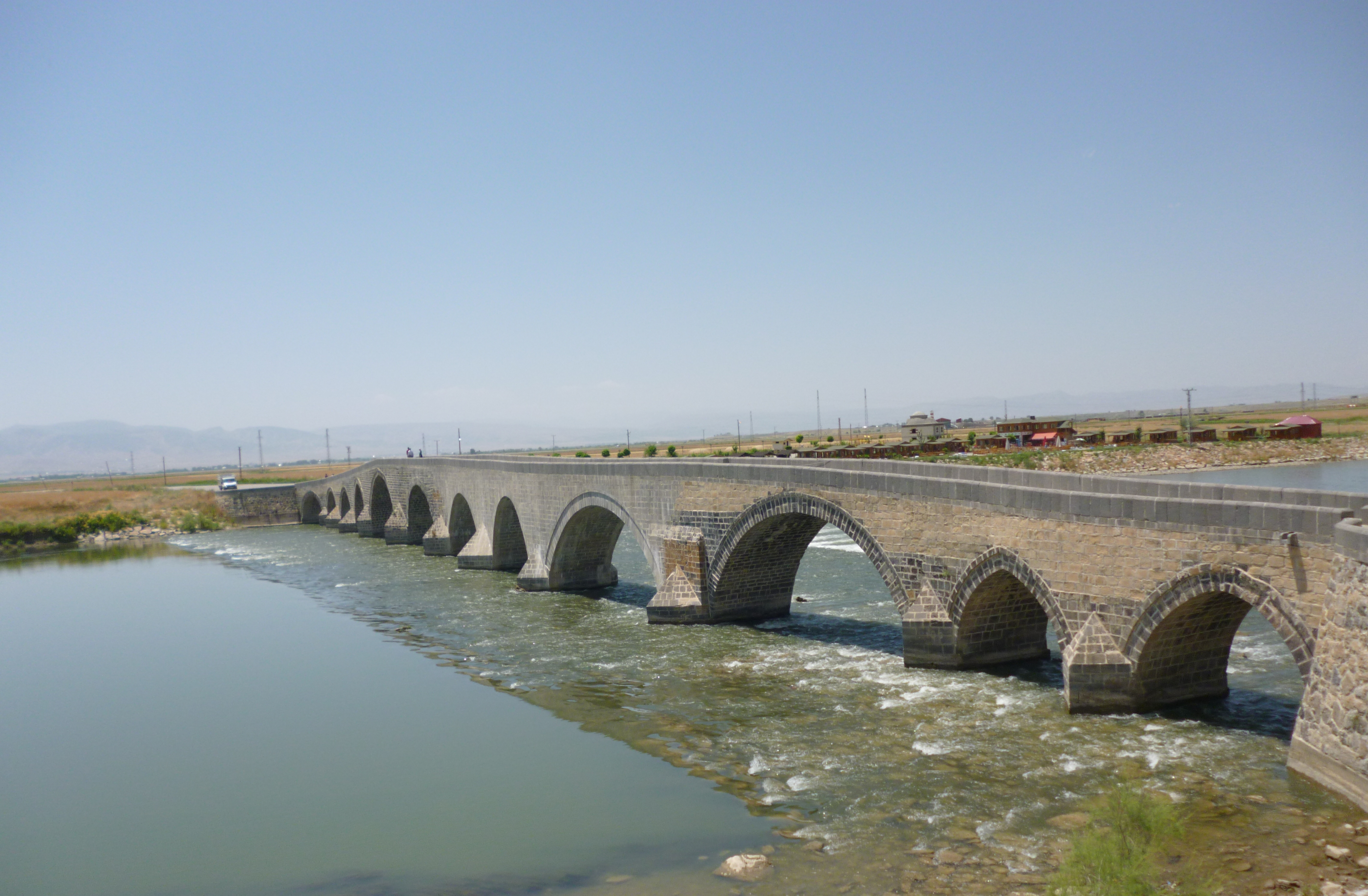 Sulukh bridge-1